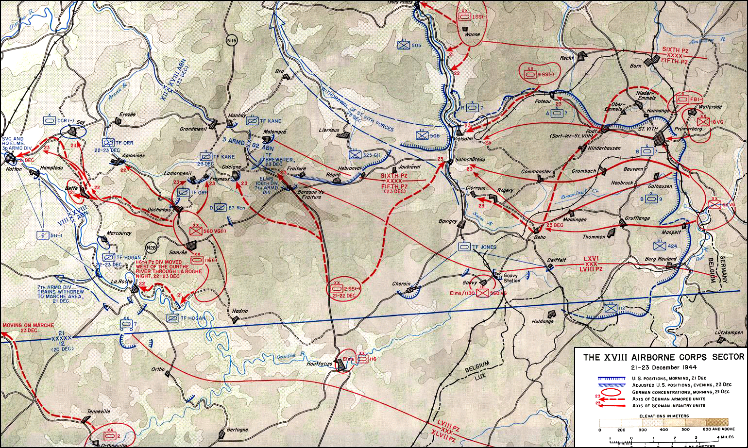 18th Airborne Corps Sector map; December 21-23, 1944.